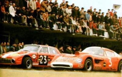 Image:FalconVs.Trueno.jpg